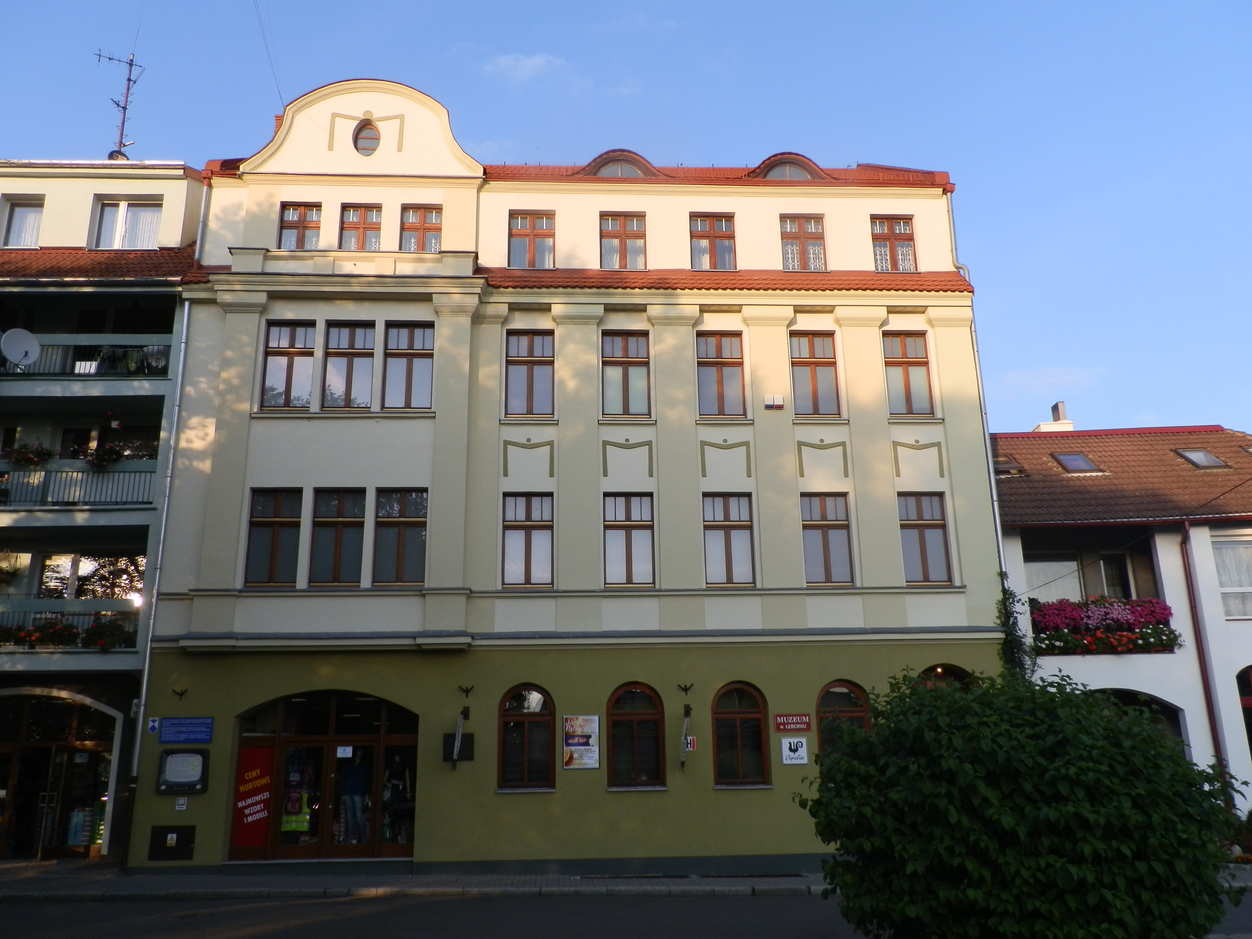 Museum building in Lębork